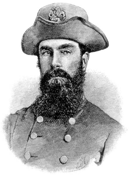 Confederate Brigadier General Maxcy Gregg. From Century Magazine, August 1886.